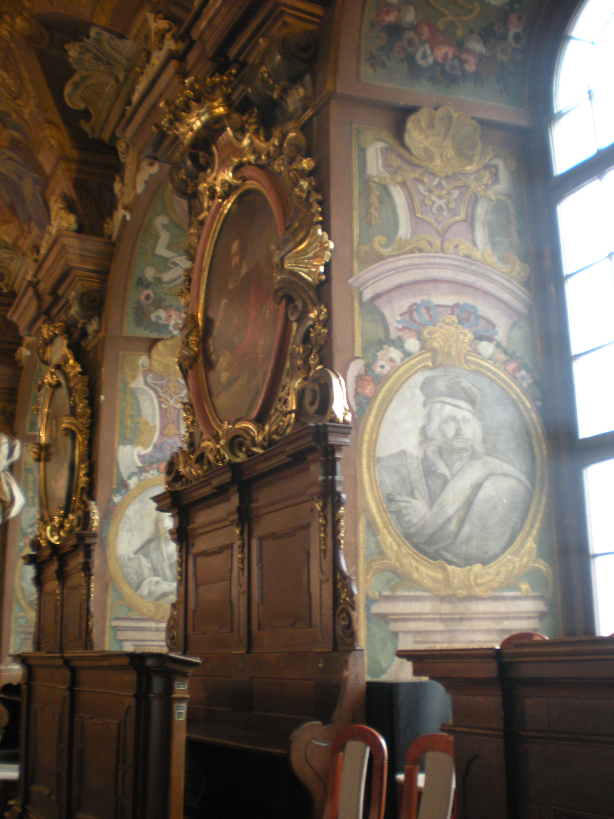 auditorium of Aula Leopoldina in Wroclaw